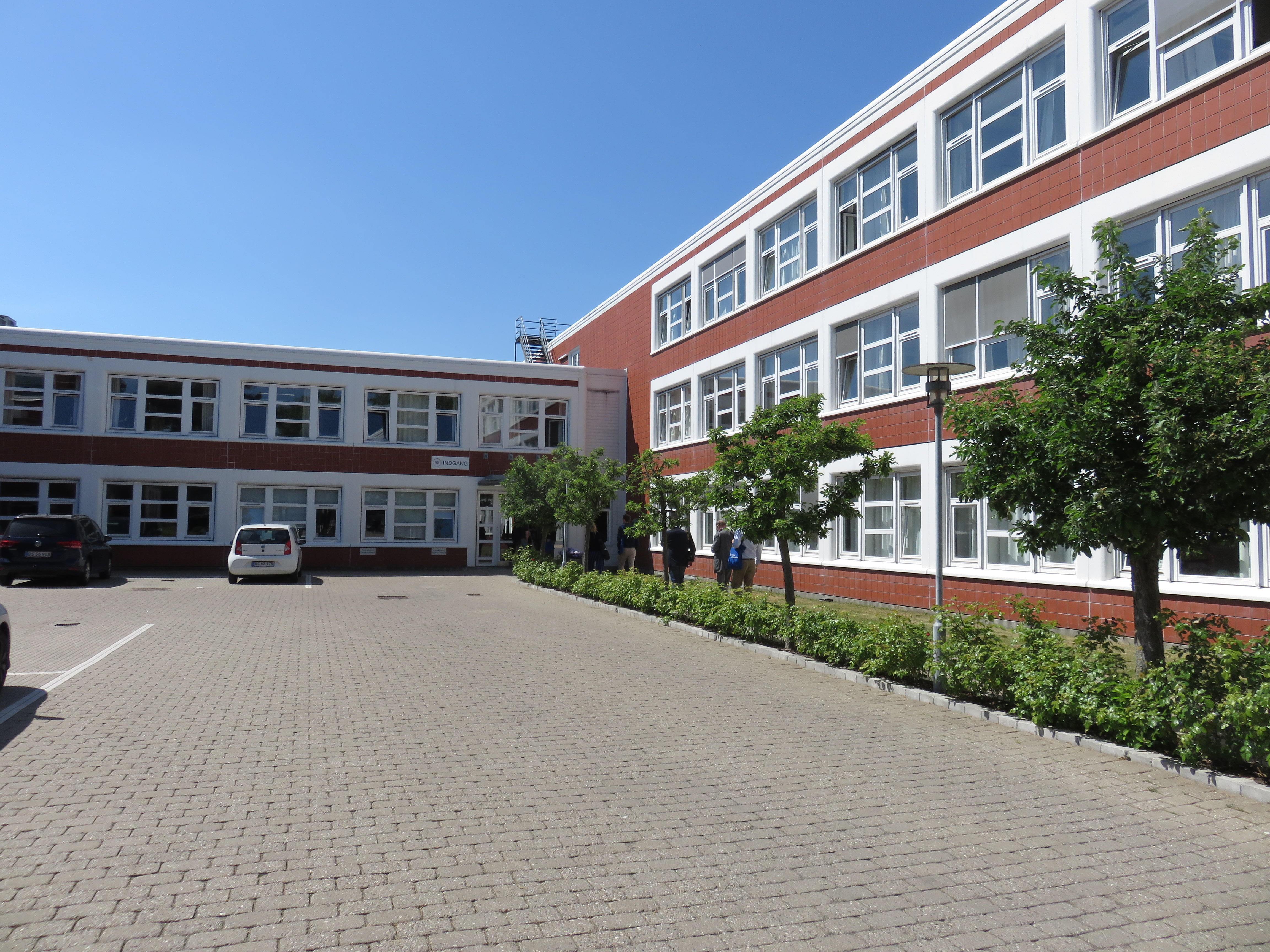 Danish National Research Centre for the Working Environment in Copenhagen, Denmark in 2018